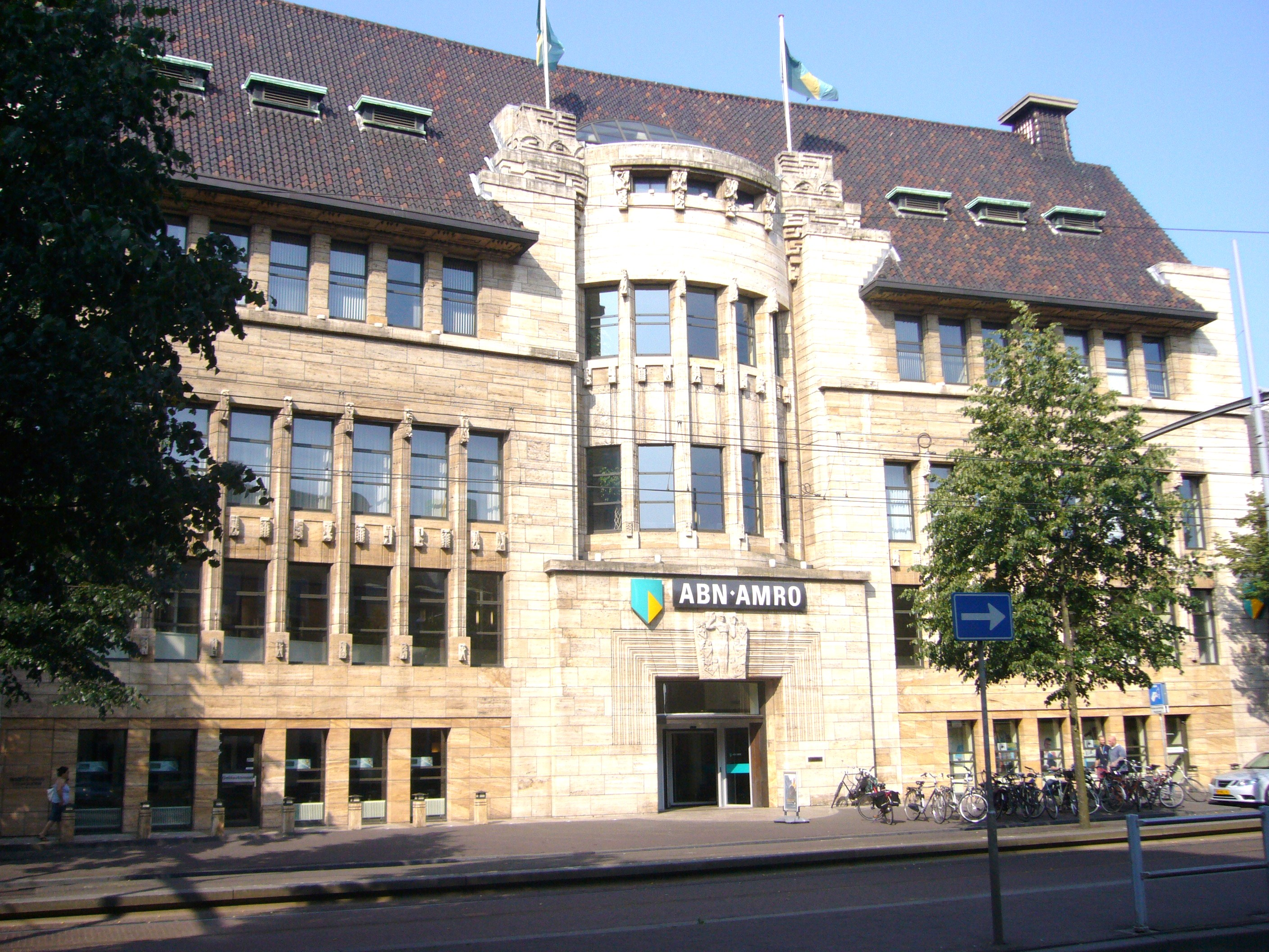 ABN Amro Bank, HQ in The Hague